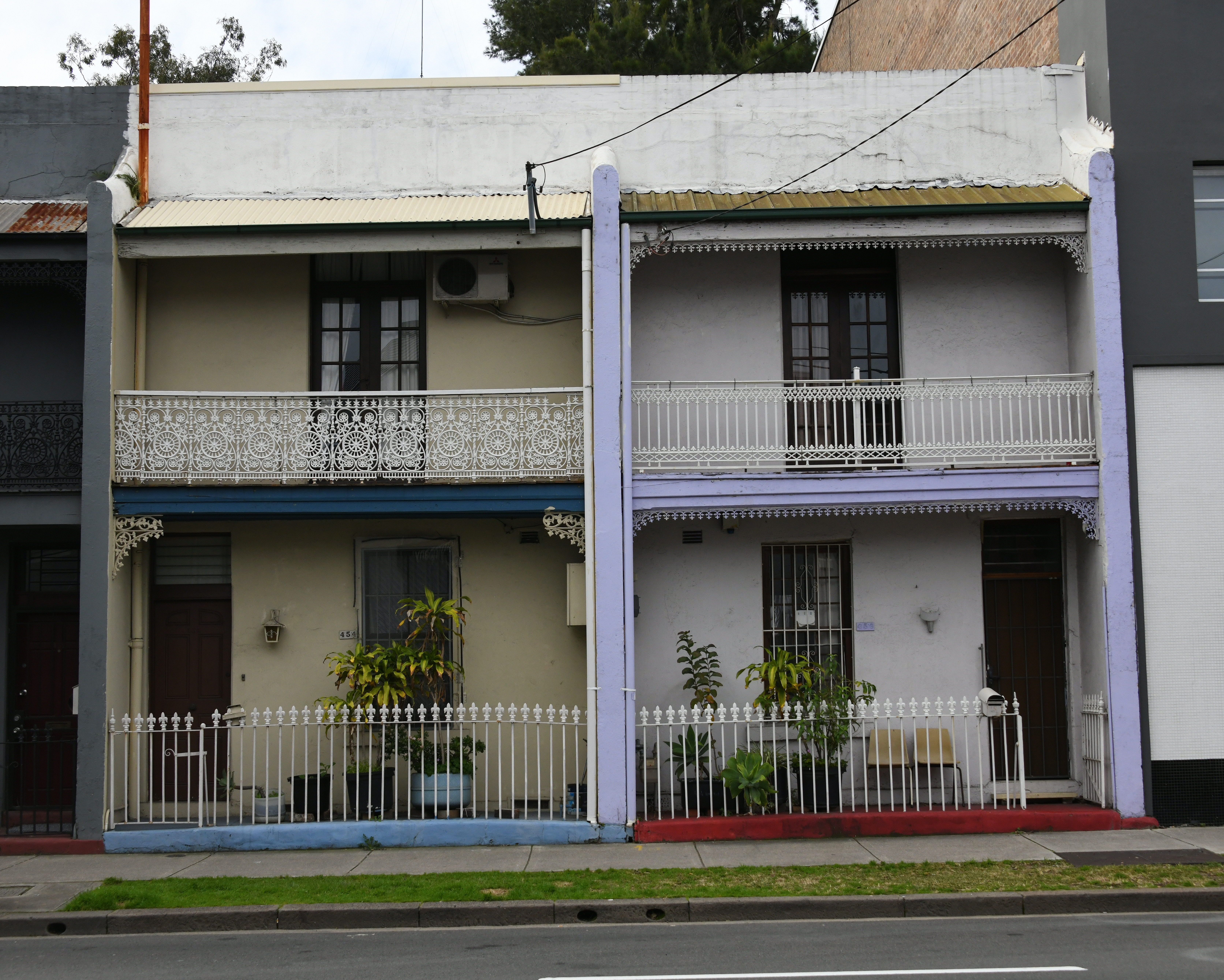 Terrace houses, Wattle Street, Ultimo, Sydney